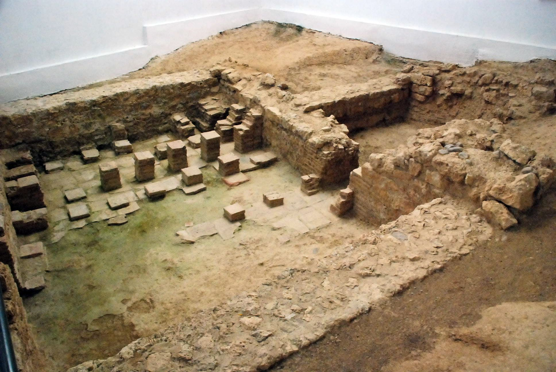 Hypocausts of the Roman Villae of Tejada in Quintanilla de la Cueza (Palencia, Castile and León).